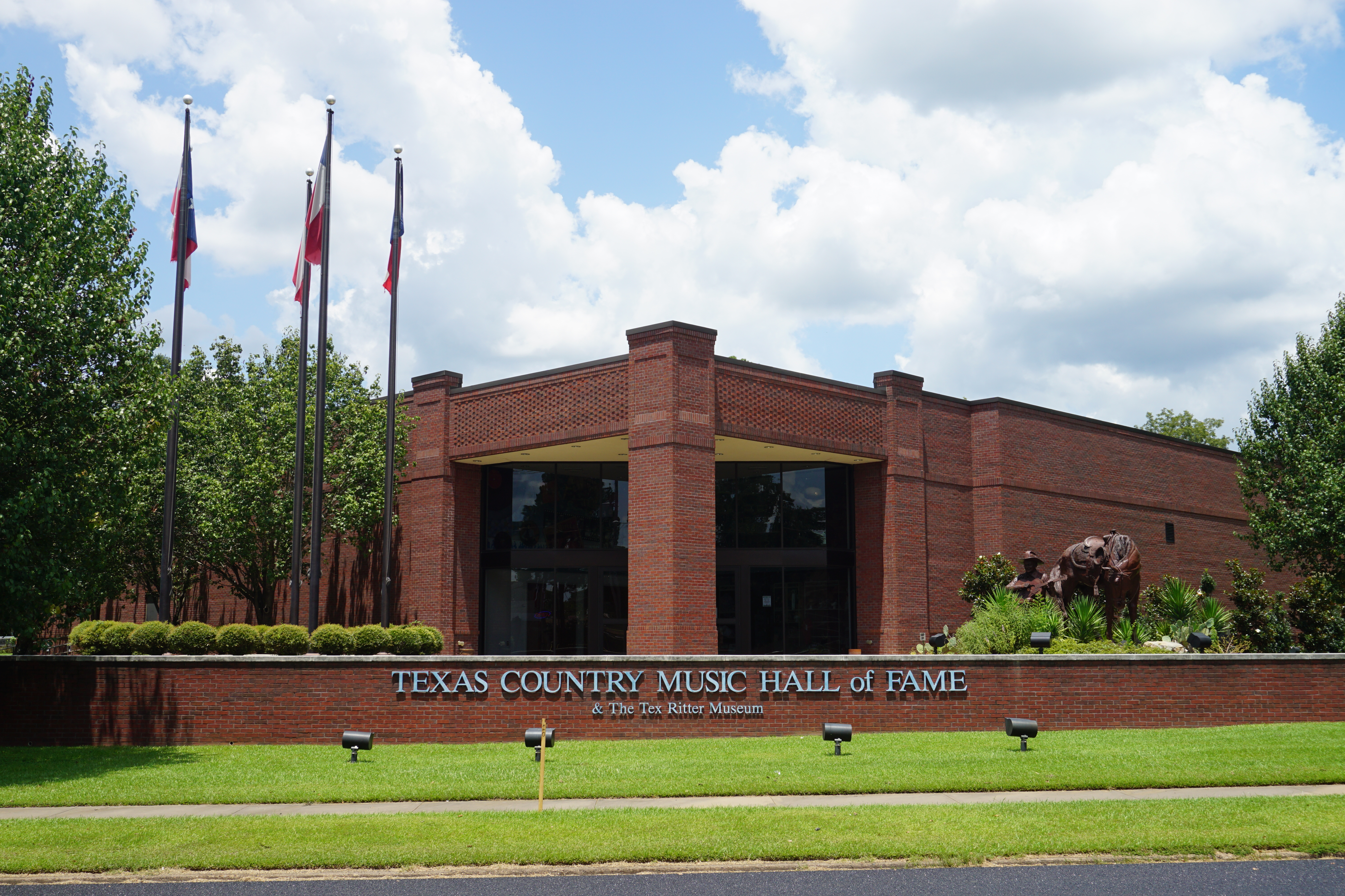 The Texas Country Music Hall of Fame in Carthage, Texas (United States).